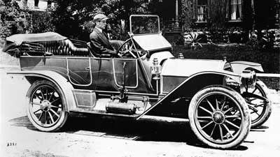 1910 Fawick Flyer 40 HP touring with coachwork by Charles Abresch Co. of Milwaukee, Wisc. The Fawick Flyer was made in Sioux Falls, S.D., by the Silent Sioux Mfg. Co., from 1908-1912. Engine was a Waukesha four. Abresch made the hand-forged aluminum bodies to Fawick's specification.